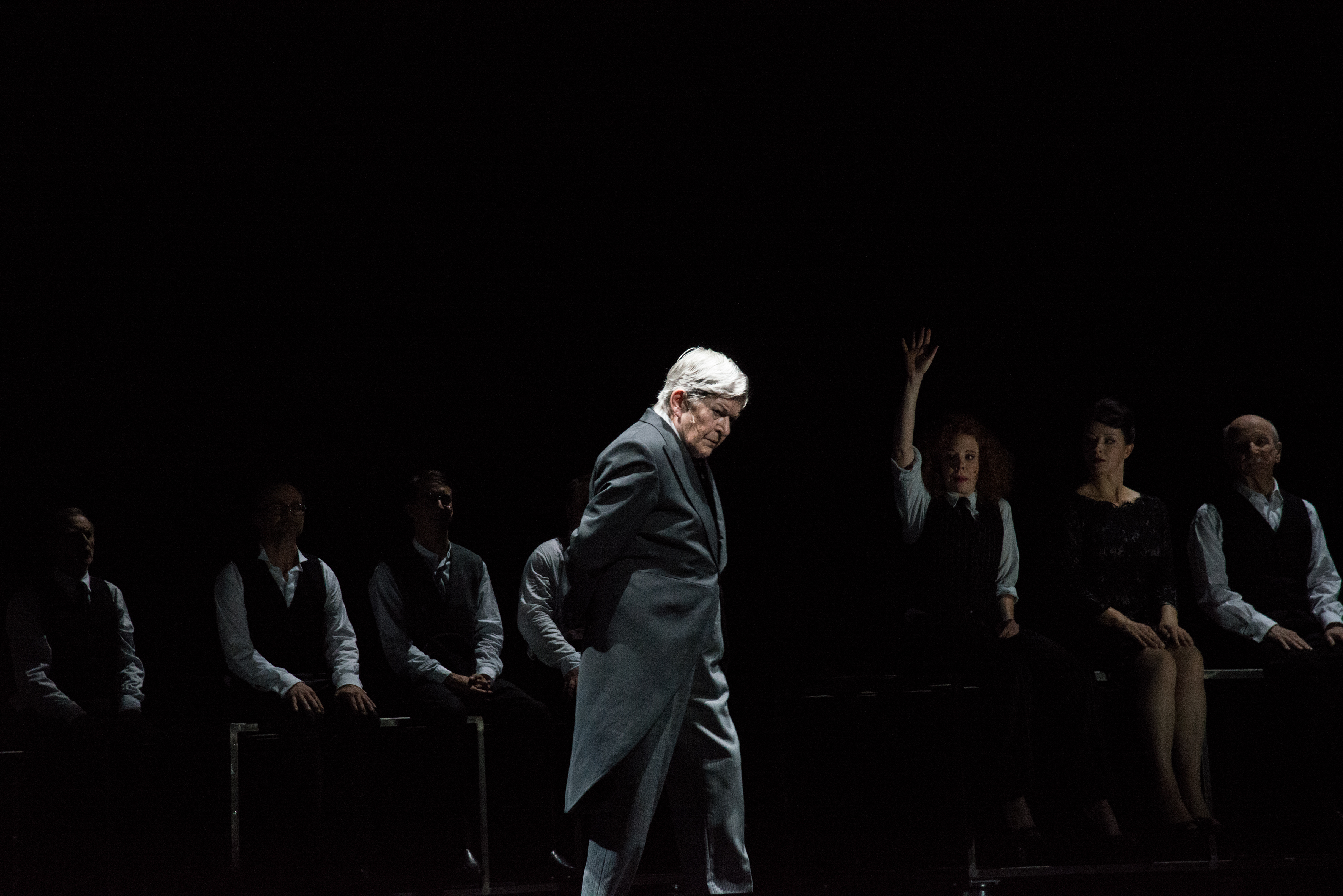 Die letzten Tage der Menschheit, Salzburger Festspiele 2014, Elisabeth Orth und Ensemble des Burgtheaters